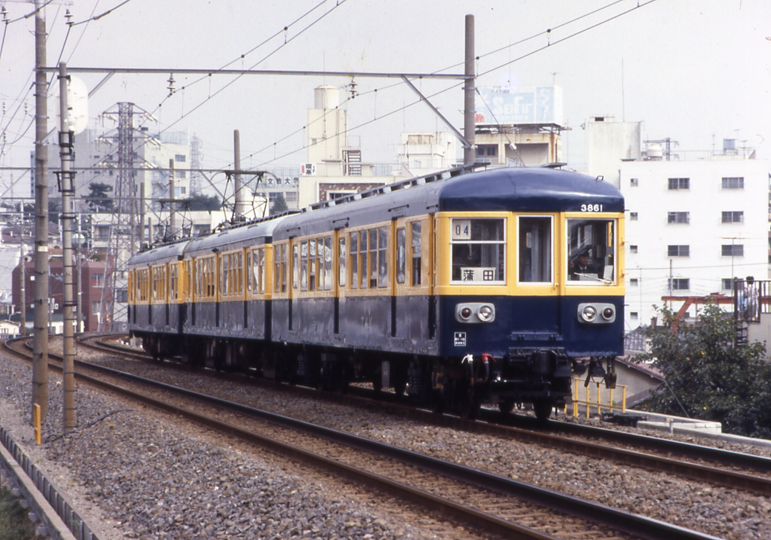 Tokyu 3861 running near Ishikawadai Station